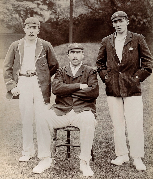 Nottinghamshire cricketers (left-right) John Gunn, William Gunn and George Gunn photographed by Hawkins of Brighton, circa 1904. George and John were brothers and nephews of William.